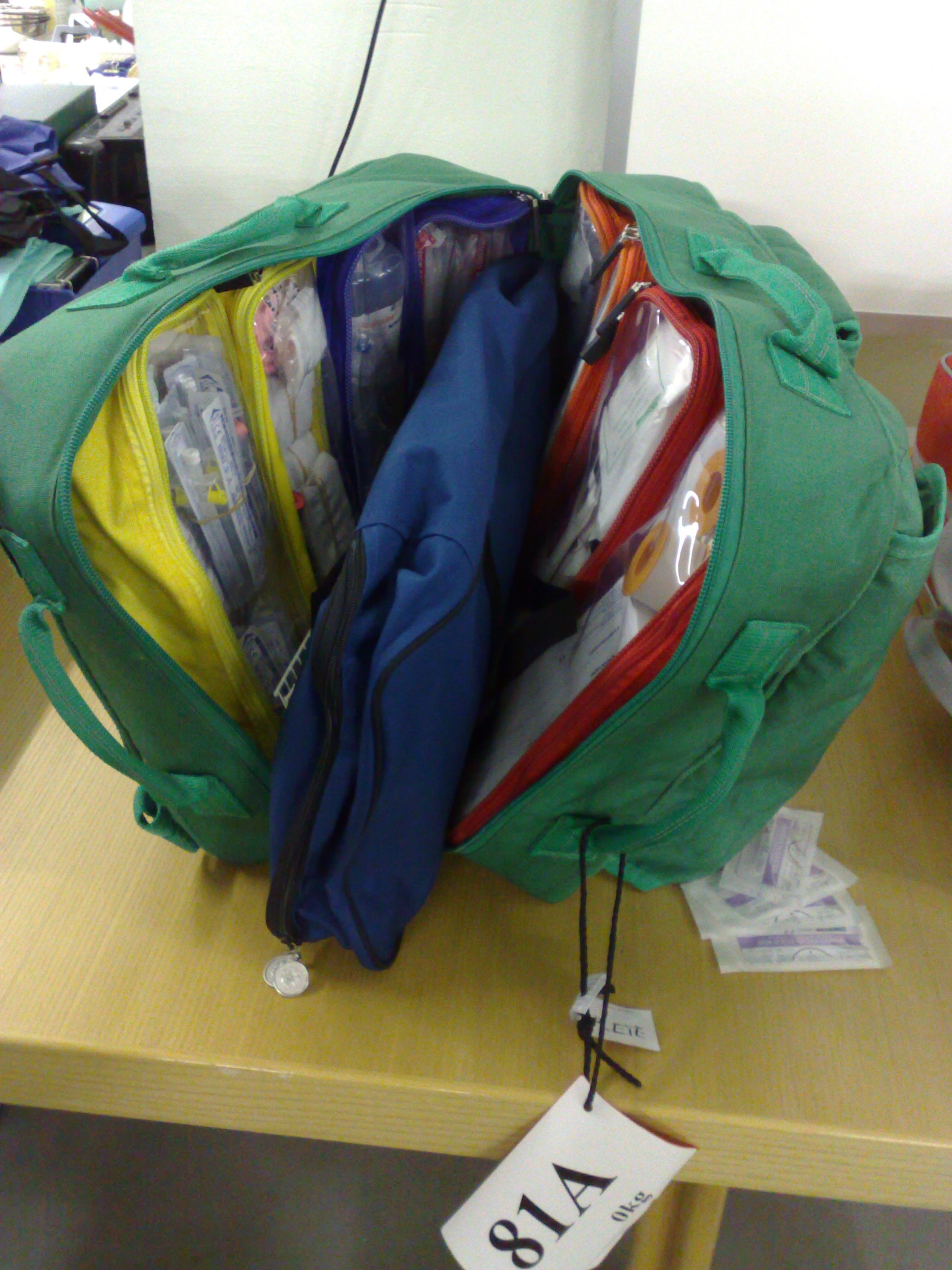 From the Logistics Centre of the Finnish Red Cross in Kalkku, Tampere, Finland.